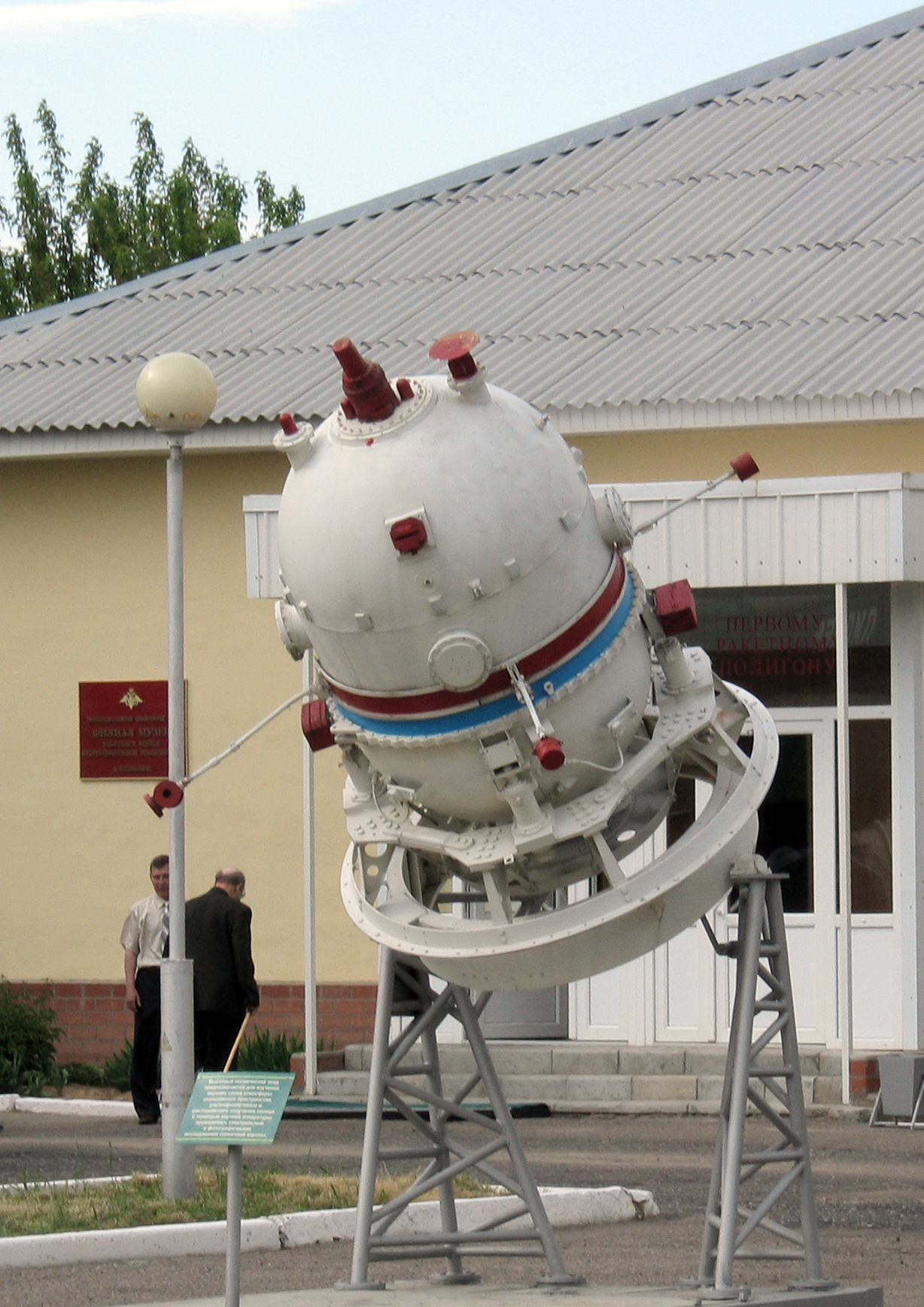 High-altitude atmospheric probe (VZA) is a payload of geophysical rockets "Vertical" K65UP. Kapustin Yar museum in Znamensk, Russia.